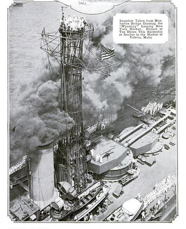 Interesting view of the USS Wyoming (BB-32) underway leaving New York harbor as taken from the Manhattan Bridge, 1915